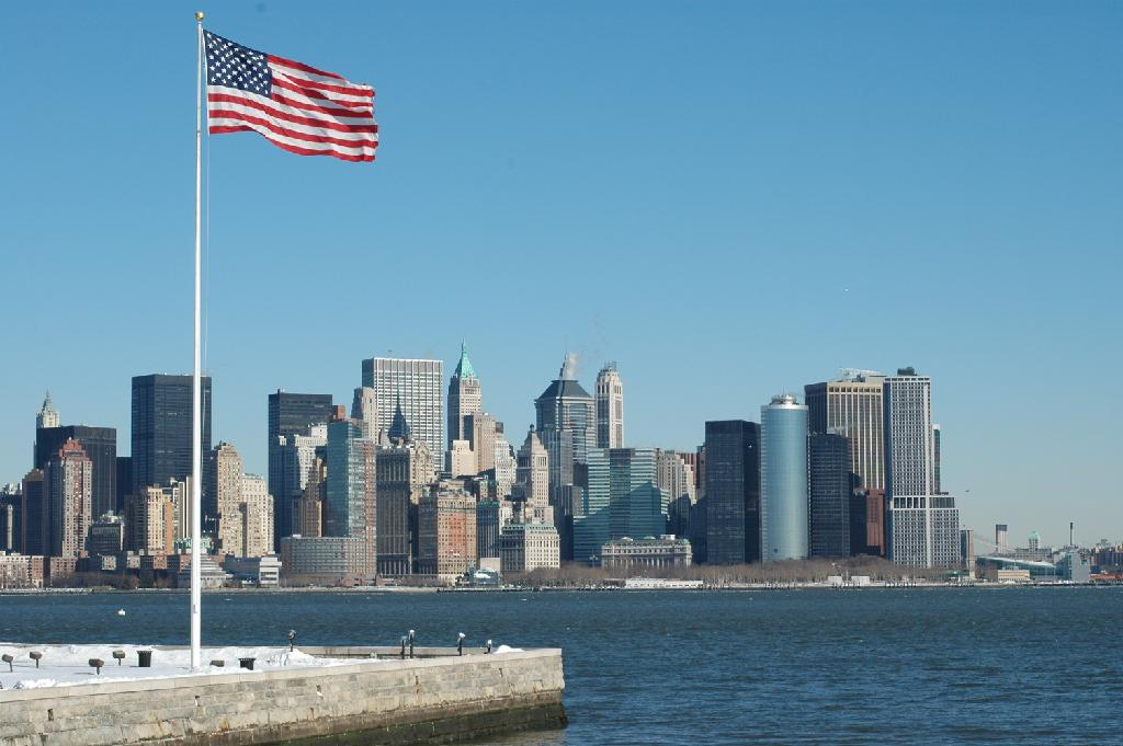 A view of Lower Manhattan with the Stars and Stripes in the foreground, taken from the Ellis Island ferry.